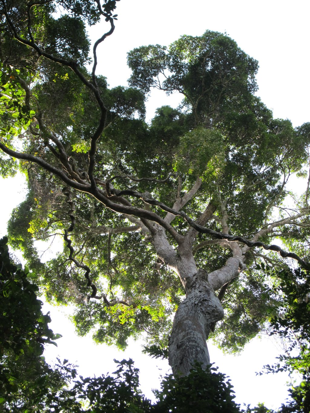 Udawattakele Forest scenery: Mangifera zeylanica